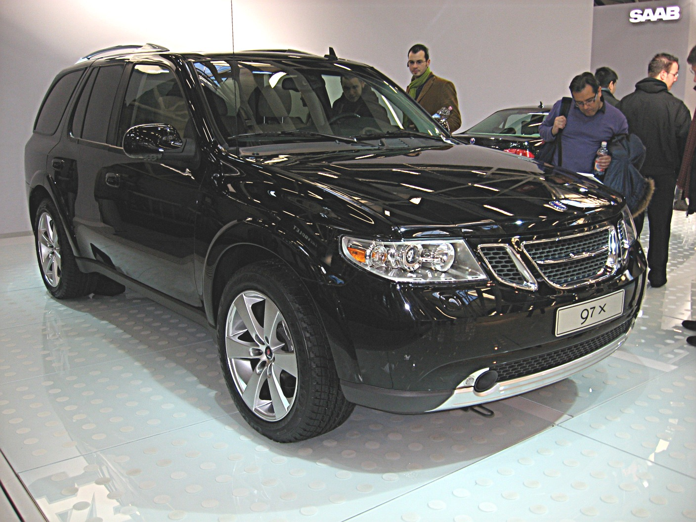 Subject:Saab 9-7X Author:Luc106 Date:December 13th, 2007 Event:Motor Show Bologna 2007 Place/Country: Bologna, Italy I release all rights in the public domain.